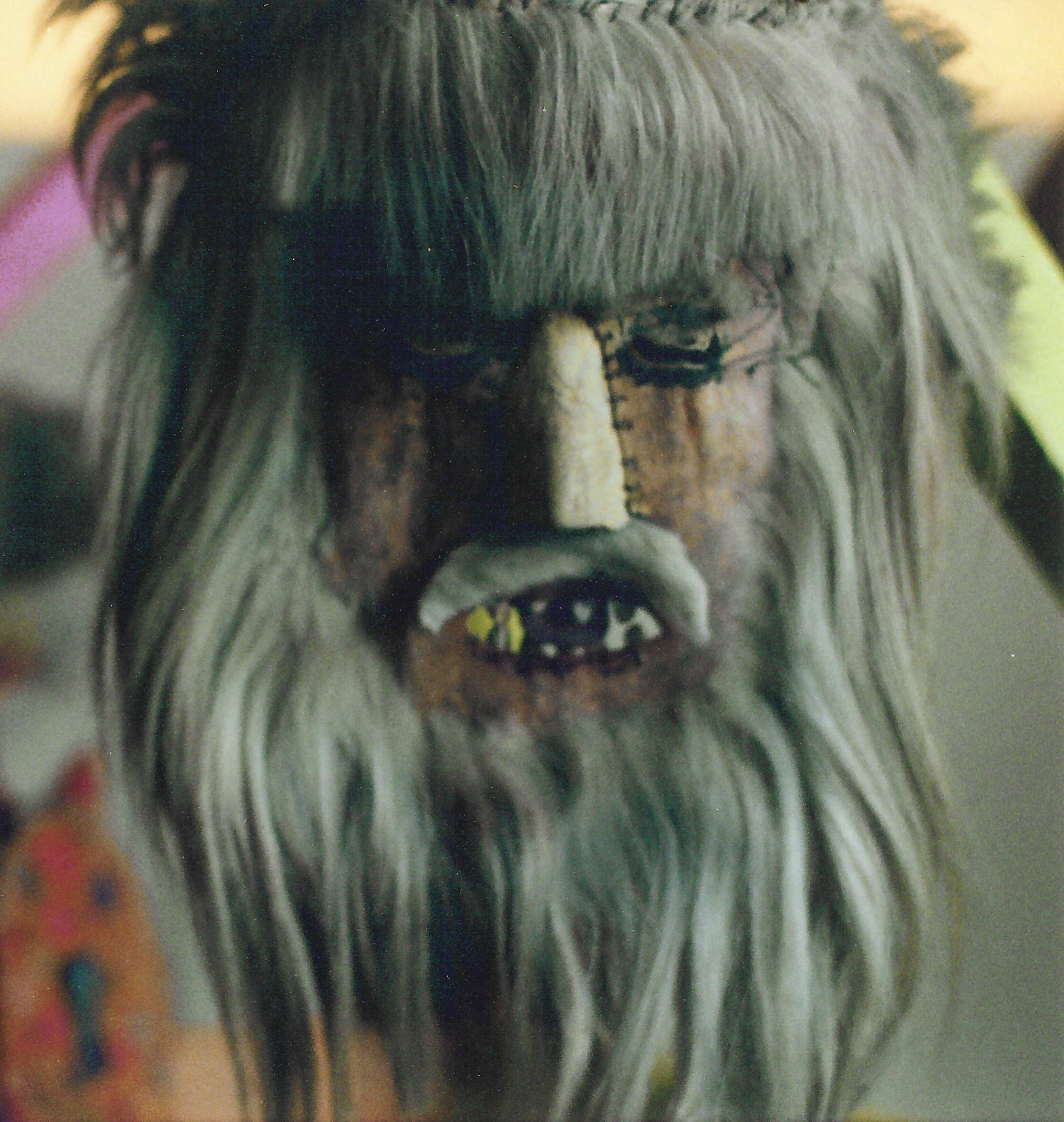 Mask, used for Romanian peasant dances, and festivities associated with the period between Christmas and Epiphany. Museum of the Romanian Peasant, Bucharest, Romania. (Muzeul Ţaranului Român, Bucureşti, România.) See The Masks Customs on the site of that museum for some discussion of these traditions.